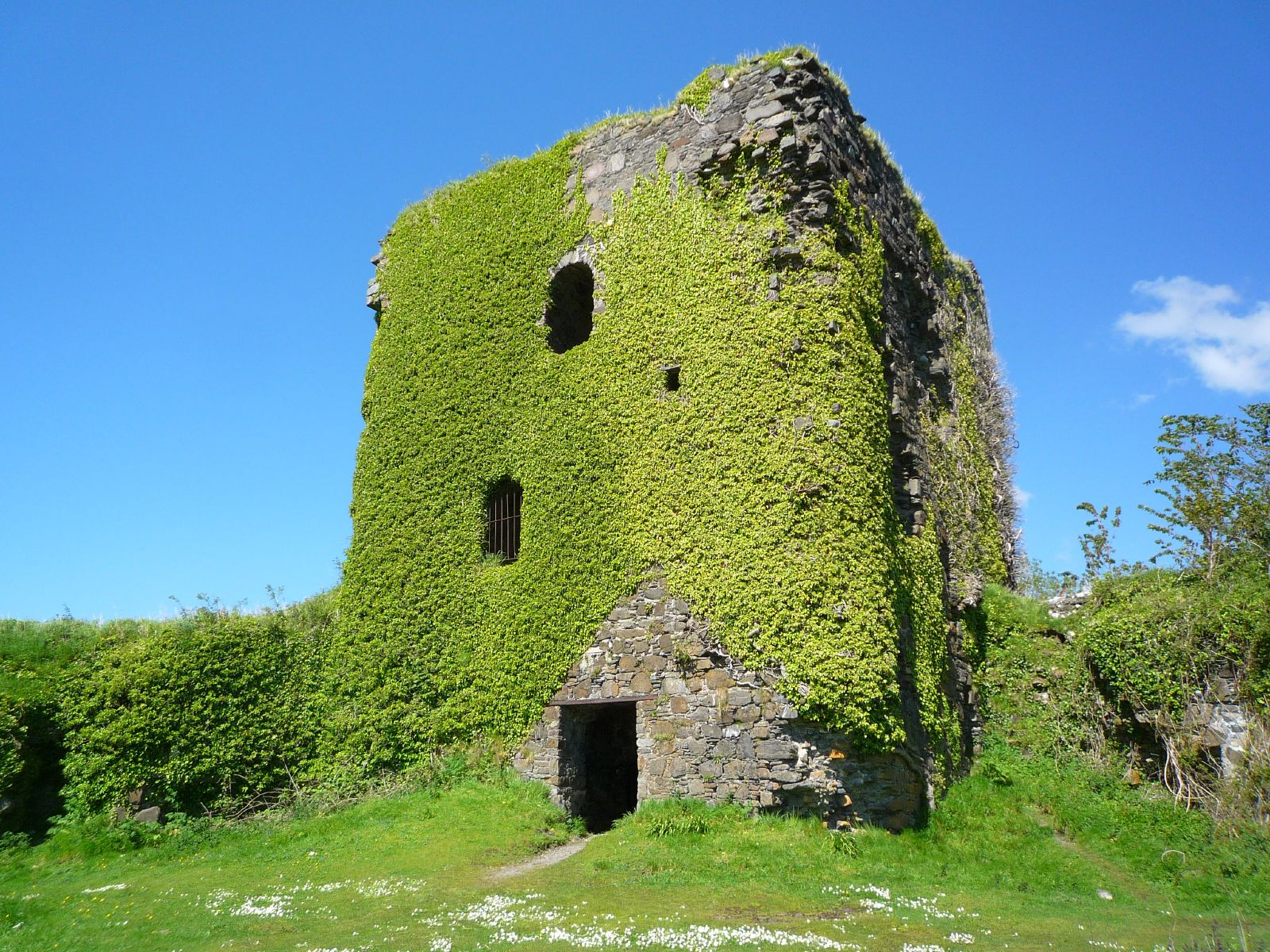 Dunollie Castle, near Oban, Scotland (No giants)